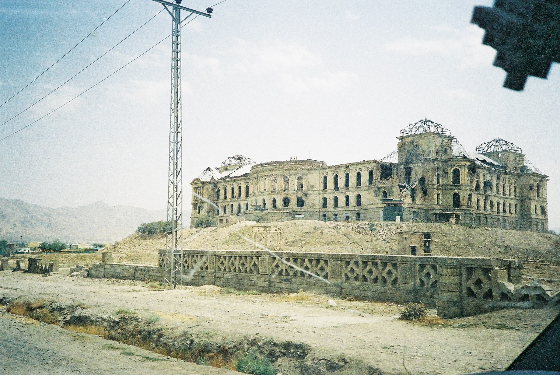 Darul Aman Palace northern elevation showing shelling damage inflicted during mujahideen fighting for Kabul after Soviet withdrawal. Darul Aman Palace, Kabul, Afghanistan in 2006.